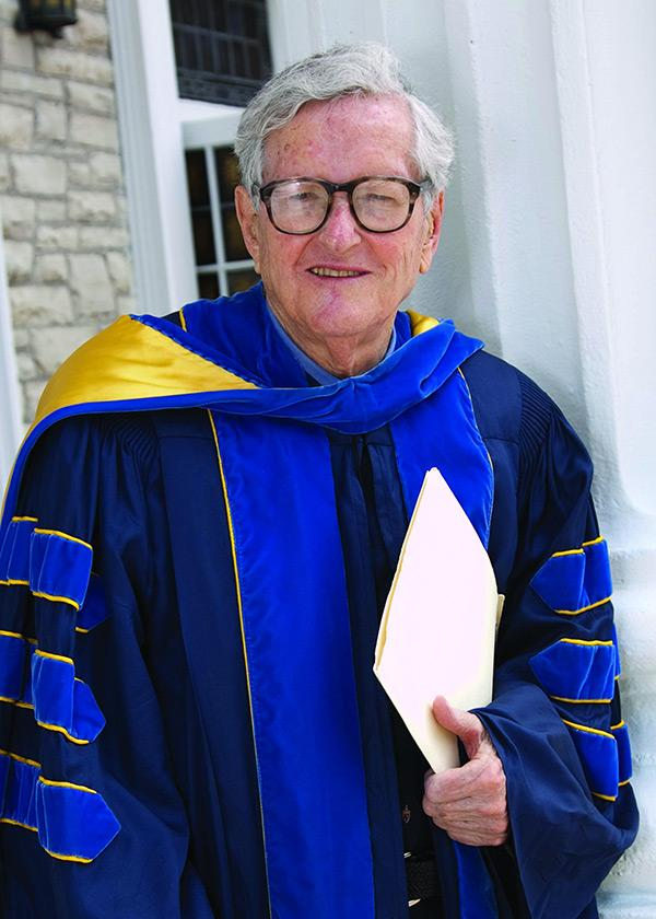 Photograph of William Chaney, George McKendree Steele Professor of Western Culture, Lawrence University, 2010